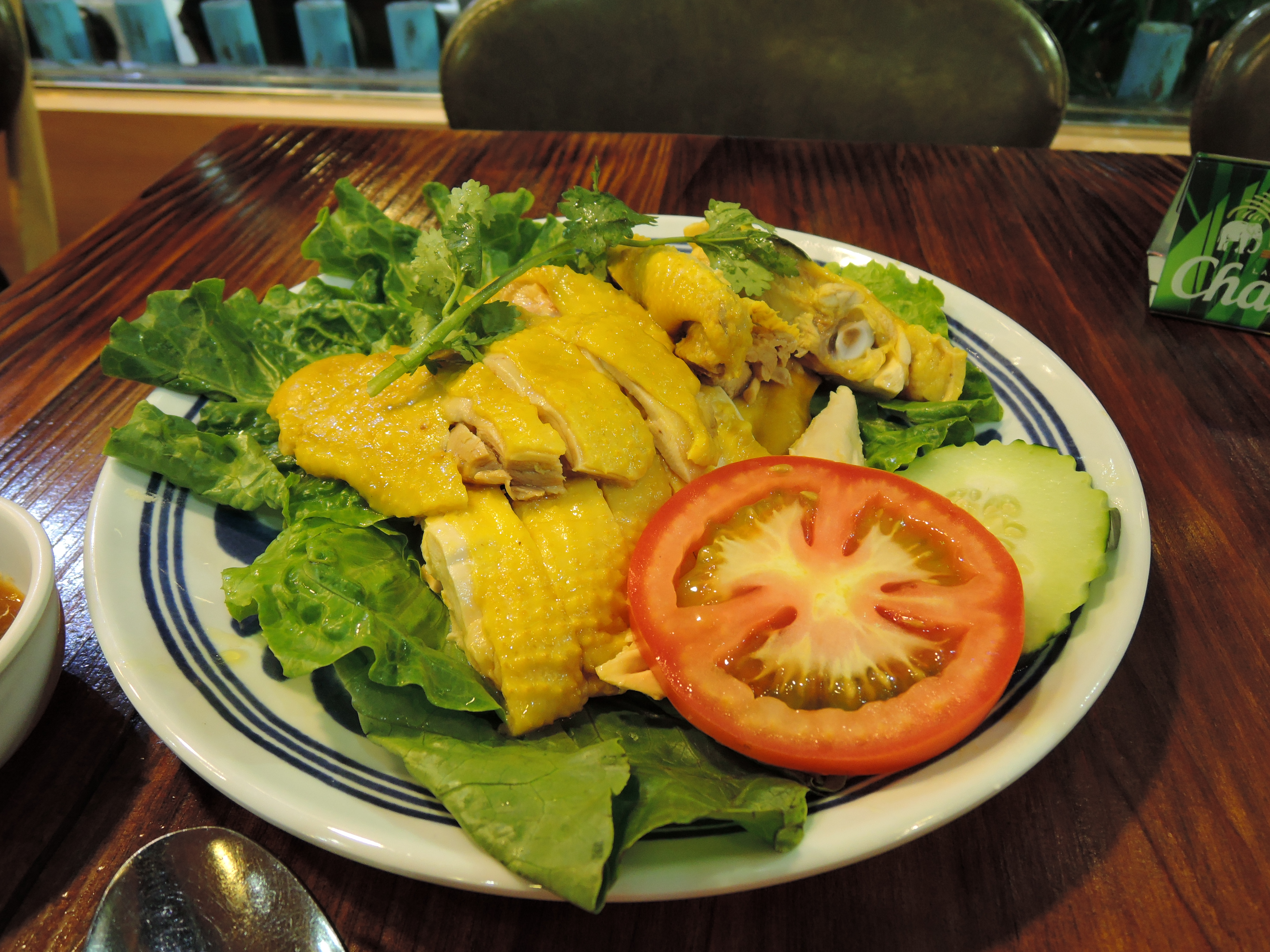 Hoinanese chicken in half in dinner at Thai's Restaurant